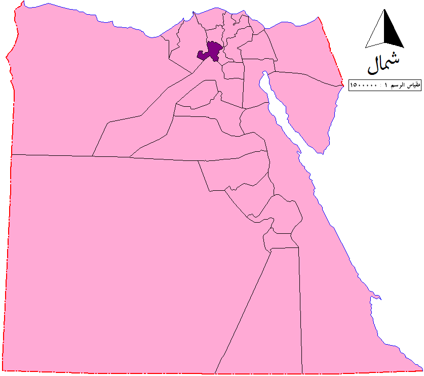 Monufia Governorate